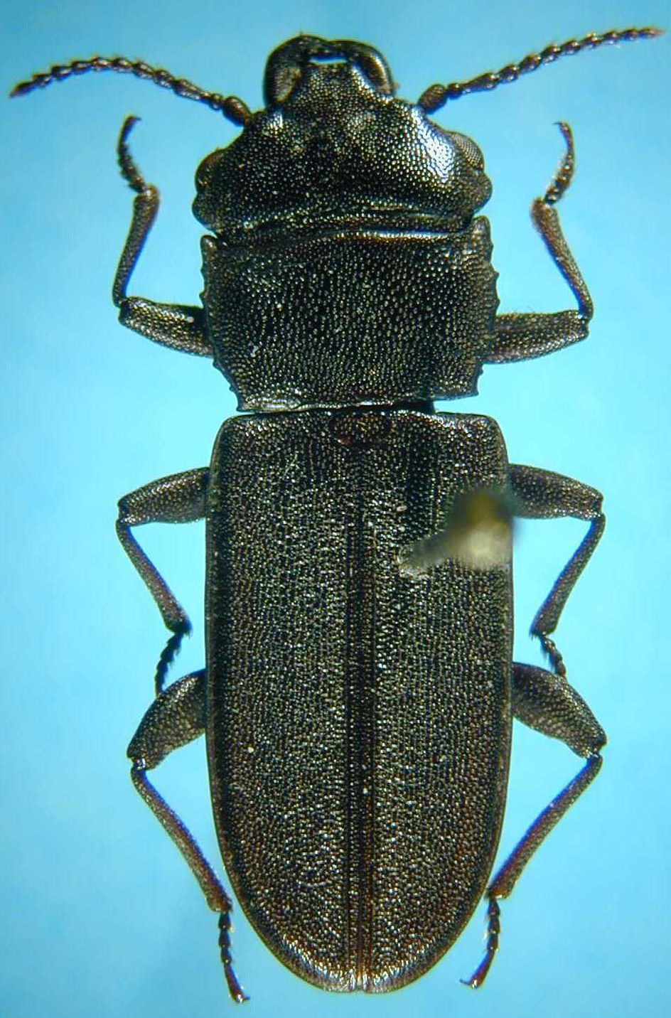 adult Platisus zelandicus